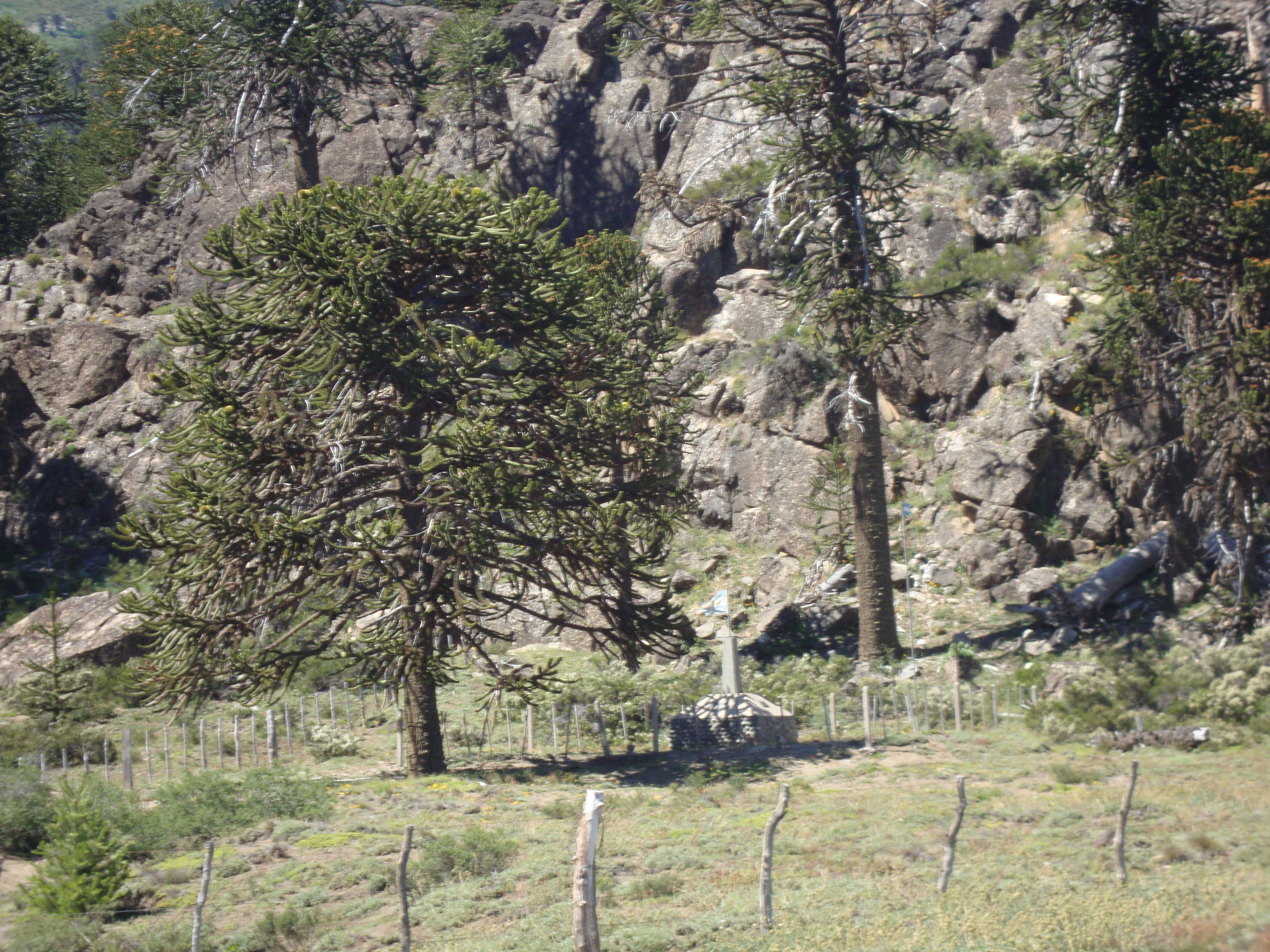 "Pulmari Battle" place.